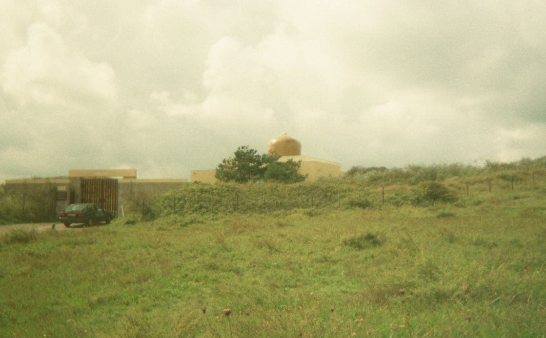 Soufi Masjid in the Southdunes in Katwijk, The Netherlands.